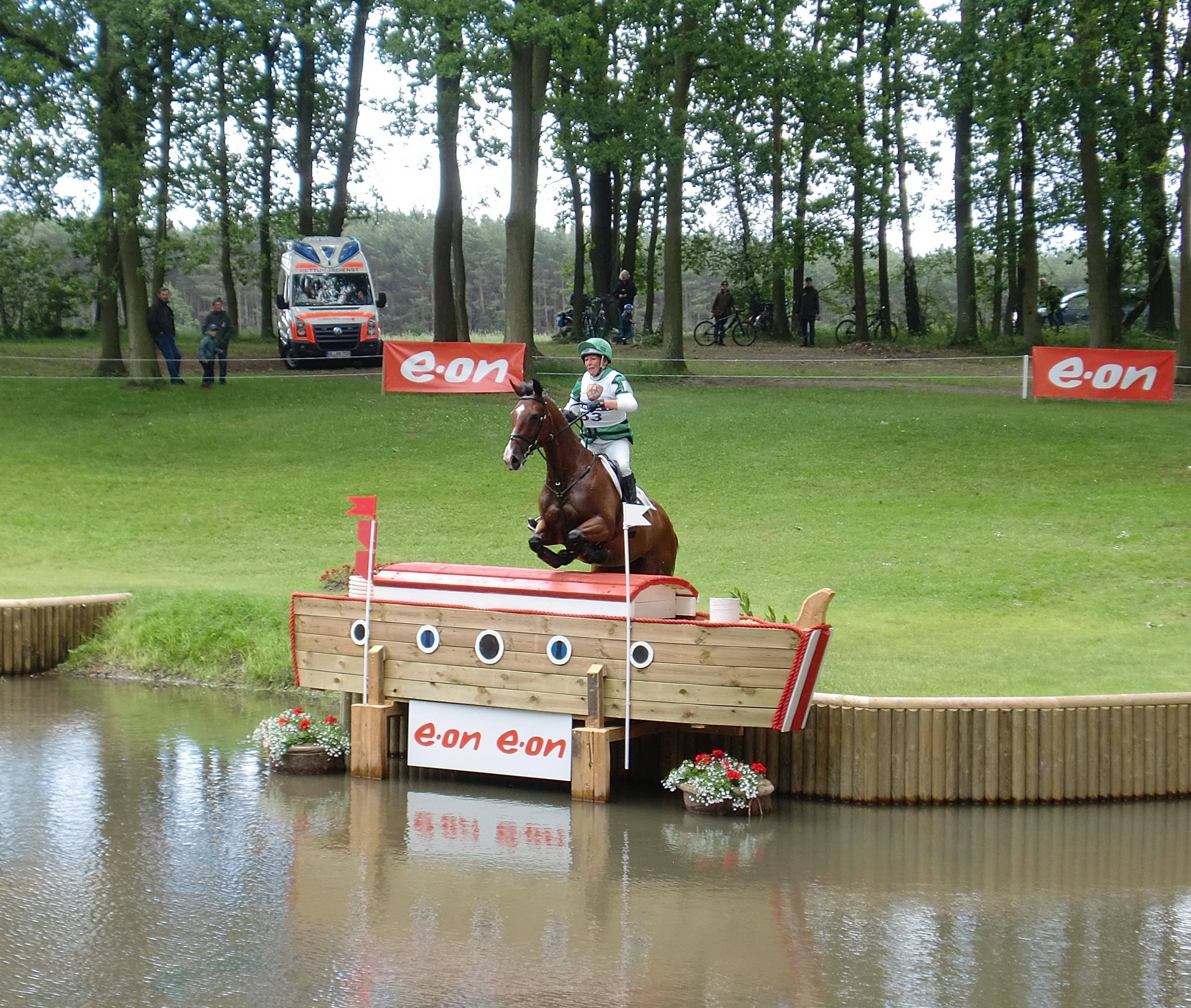 Mary King and Kings Temptress, CCI**** Luhmühlen 2010, Germany, fence 27 a (e.on boat "at the quay")